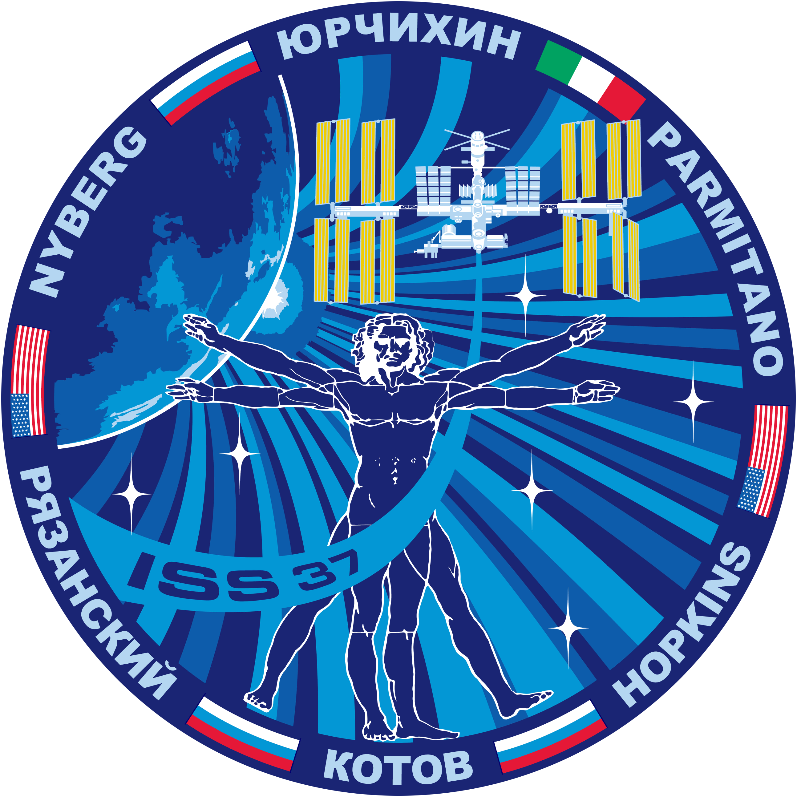 Leonardo da Vinci's Vitruvian Man, created some 525 years ago, as a blend of art and science and a symbol of the medical profession, is depicted amongst the orbits of a variety of satellites circling the Earth at great speed. Da Vinci's drawing, based on the proportions of man as described by the Roman architect Vitruvius, is often used as a symbol of symmetry of the human body and the universe as a whole. Almost perfect in symmetry as well, the International Space Station, with its solar wings spread out and illuminated by the first rays of dawn, is pictured as a mighty beacon arcing upwards across our night skies, the ultimate symbol of science and technology of our age. Six stars represent the six members of Expedition 37 crew, which includes two cosmonauts with a medical background, as well as a native of Da Vinci's Italy.